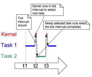 FreeRTOS task priorities